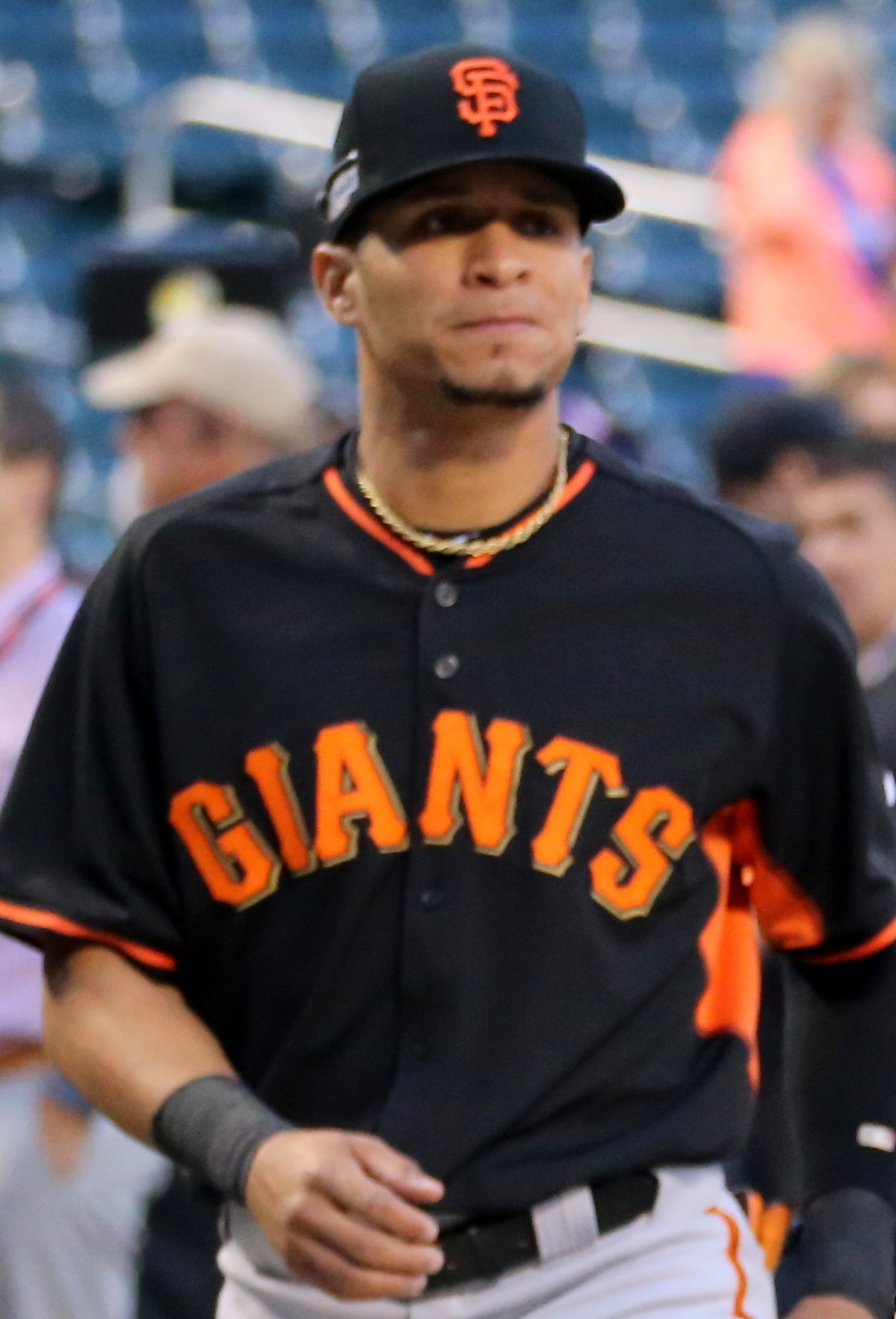 Gorkys Hernández, Ángel Pagán and Ehíré Adríanza of the San Francisco Giants before the 2016 NL Wild Card Game.